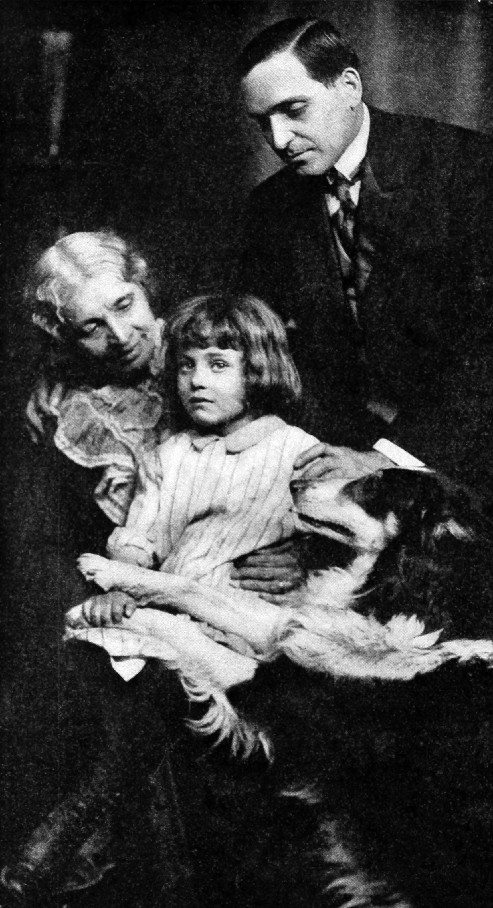 Still from the 1912 short film The Church Across the Way, featuring Mary Maurice, Helene Costello, Earle Williams and Jean the Vitagraph Dog Caption: They all decide to begin life all over again, together